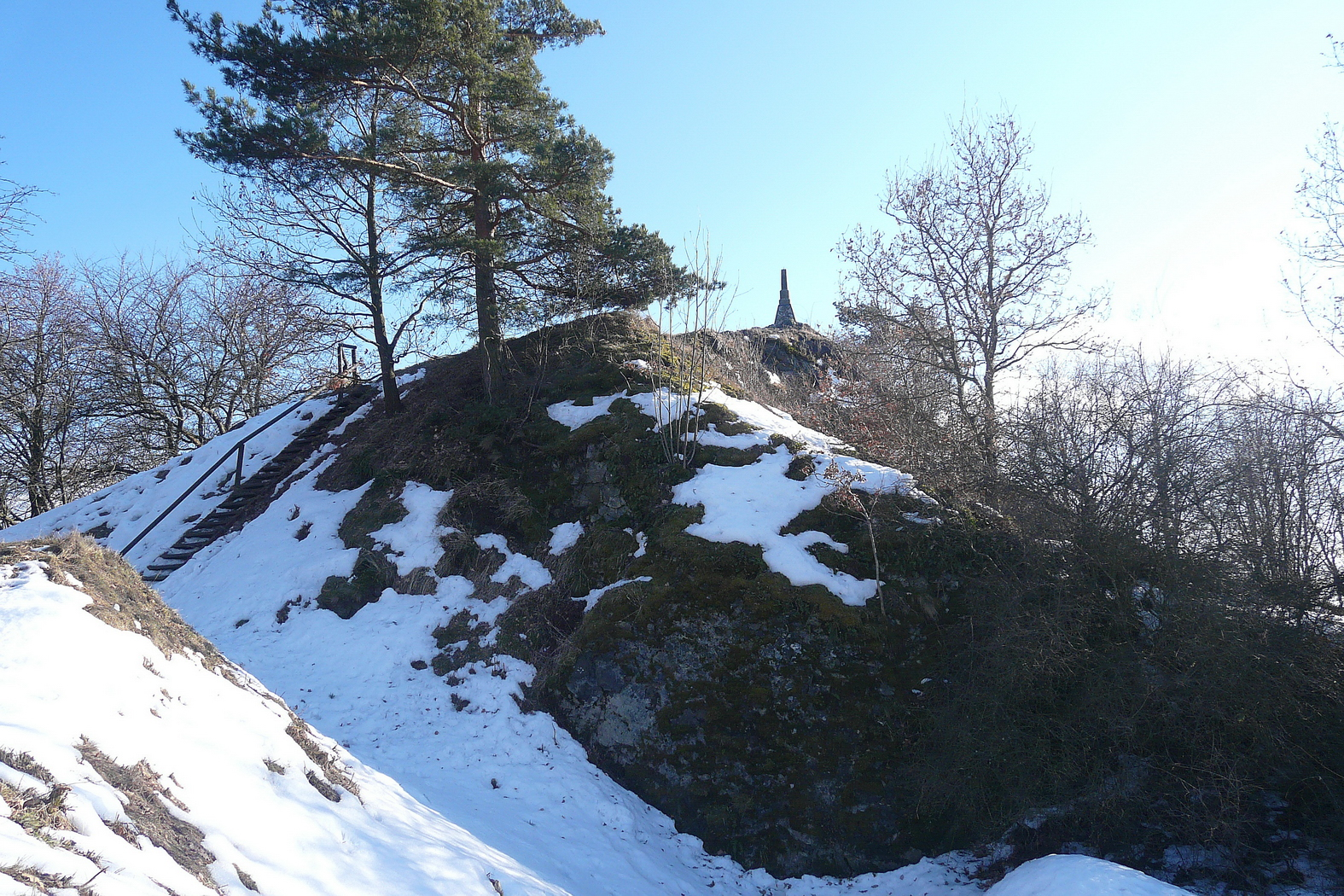 Mužský hill in winter with the memorial on the top